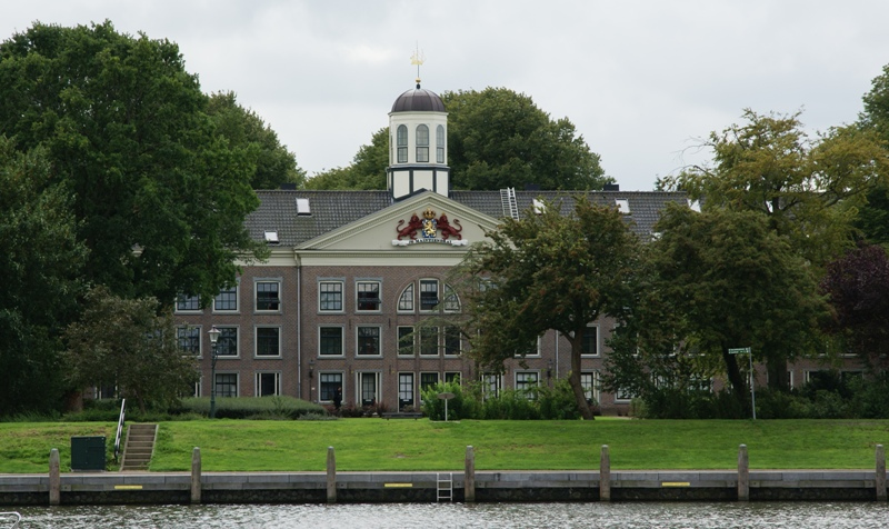 National monument no. 28413 - Landswerf 2, Medemblik, The Netherlands.